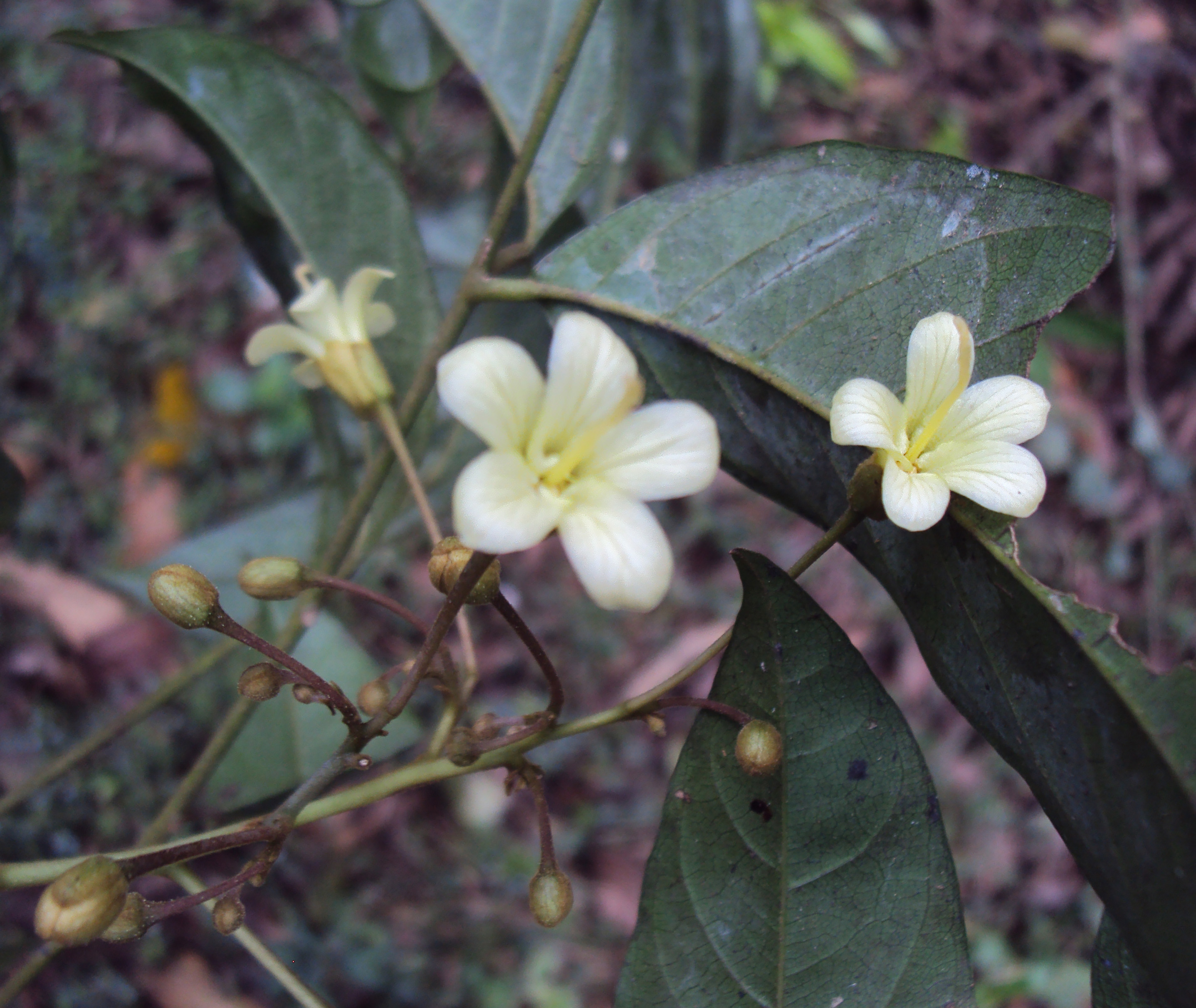 Harpullia arborea